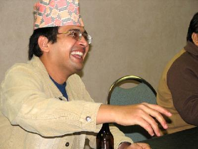 This is the picture of myself in Dhaka topi that I am describing about.